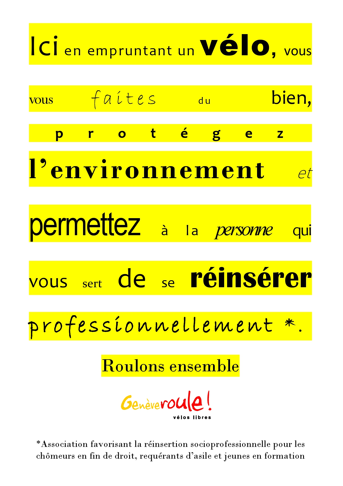 Genèveroule goals